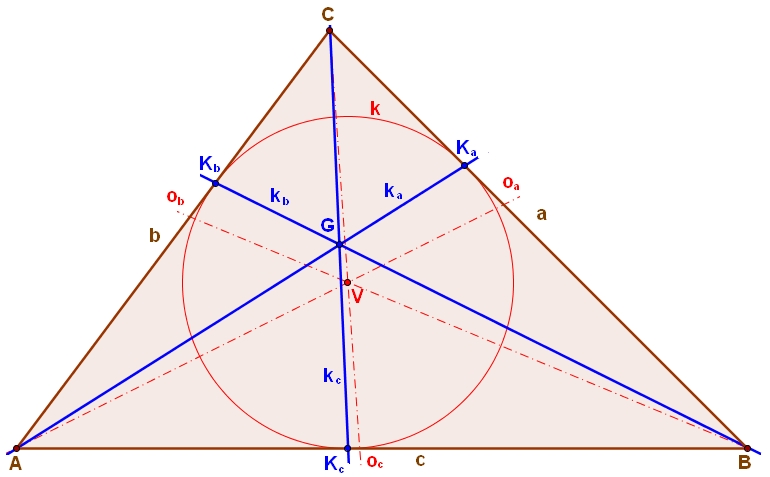 Incircle and Gergonne point ΔABC a, b, c – sides oa, ob, oc – angle bisectors V – intersection of angle bisectors (incenter) k – incircle Ka, Kb, Kc – incircle tangent points ka, kb, kc – lines including vertices and tangent points G – Gergonne point